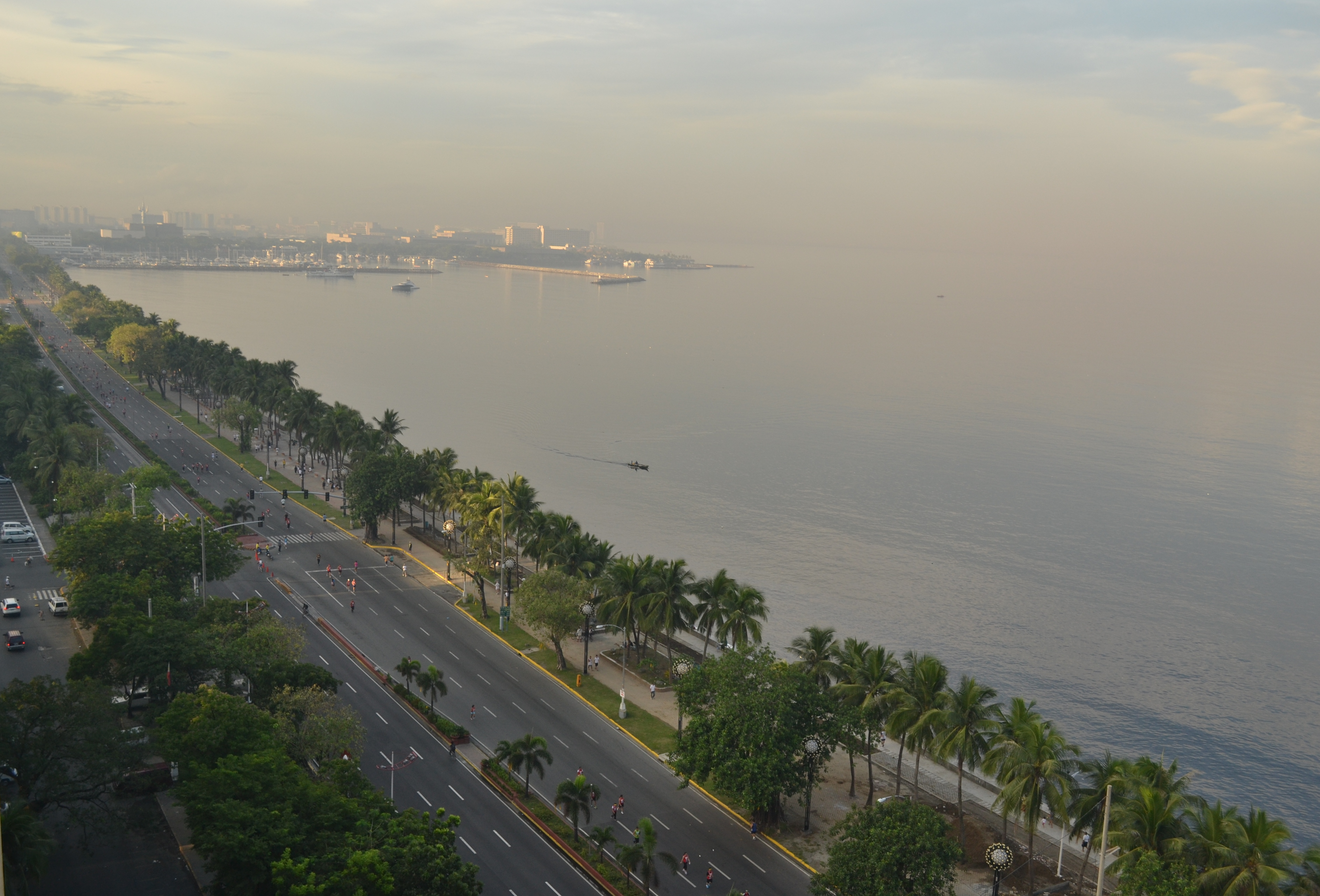 Roxas Blvd stretching through Manila Bay